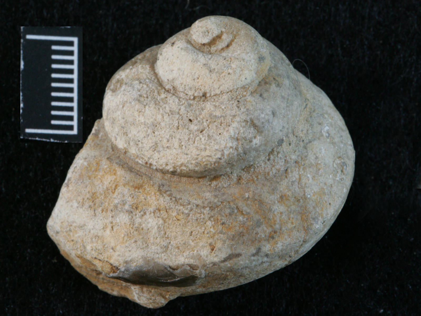 Fossilised gastropod Lophospira sp.. Collected from the limestone of the Middle-Ordovician Uhaku Stage, Lasnamäe, Estonia. More info.